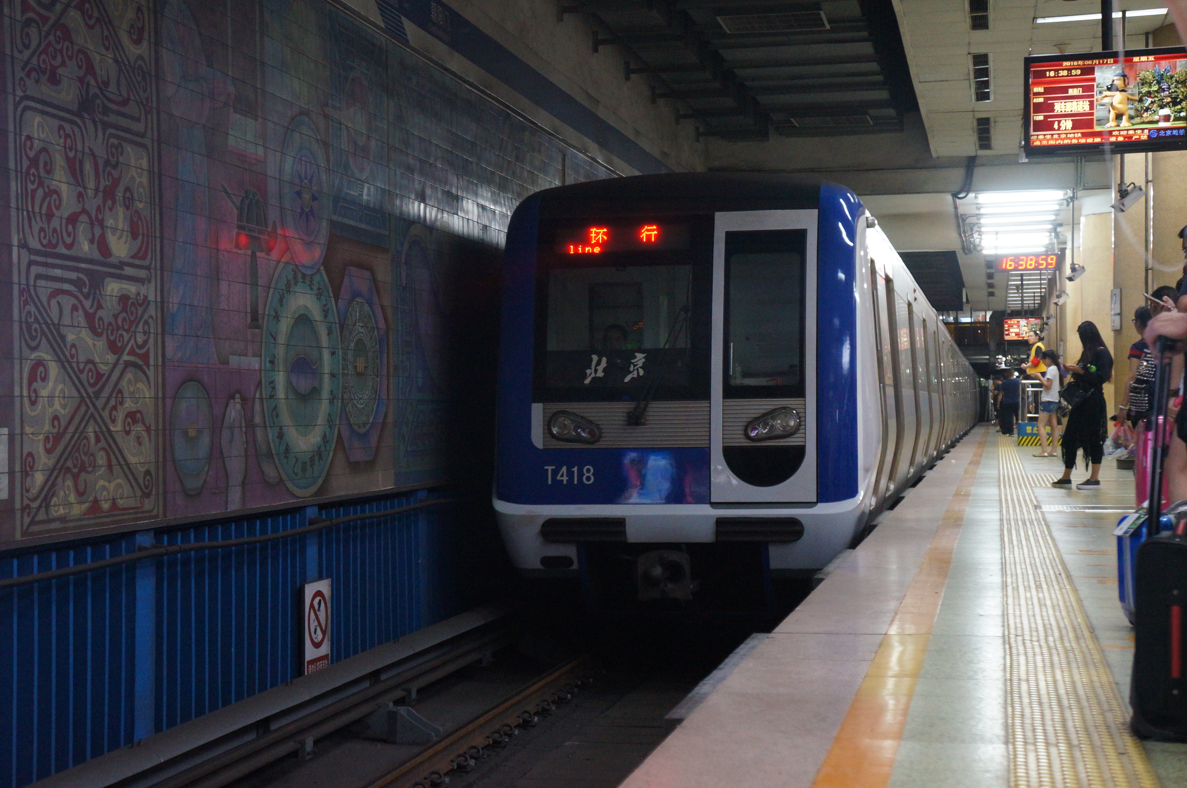 201606 DKZ16-T418 enters into Jianguomen Station